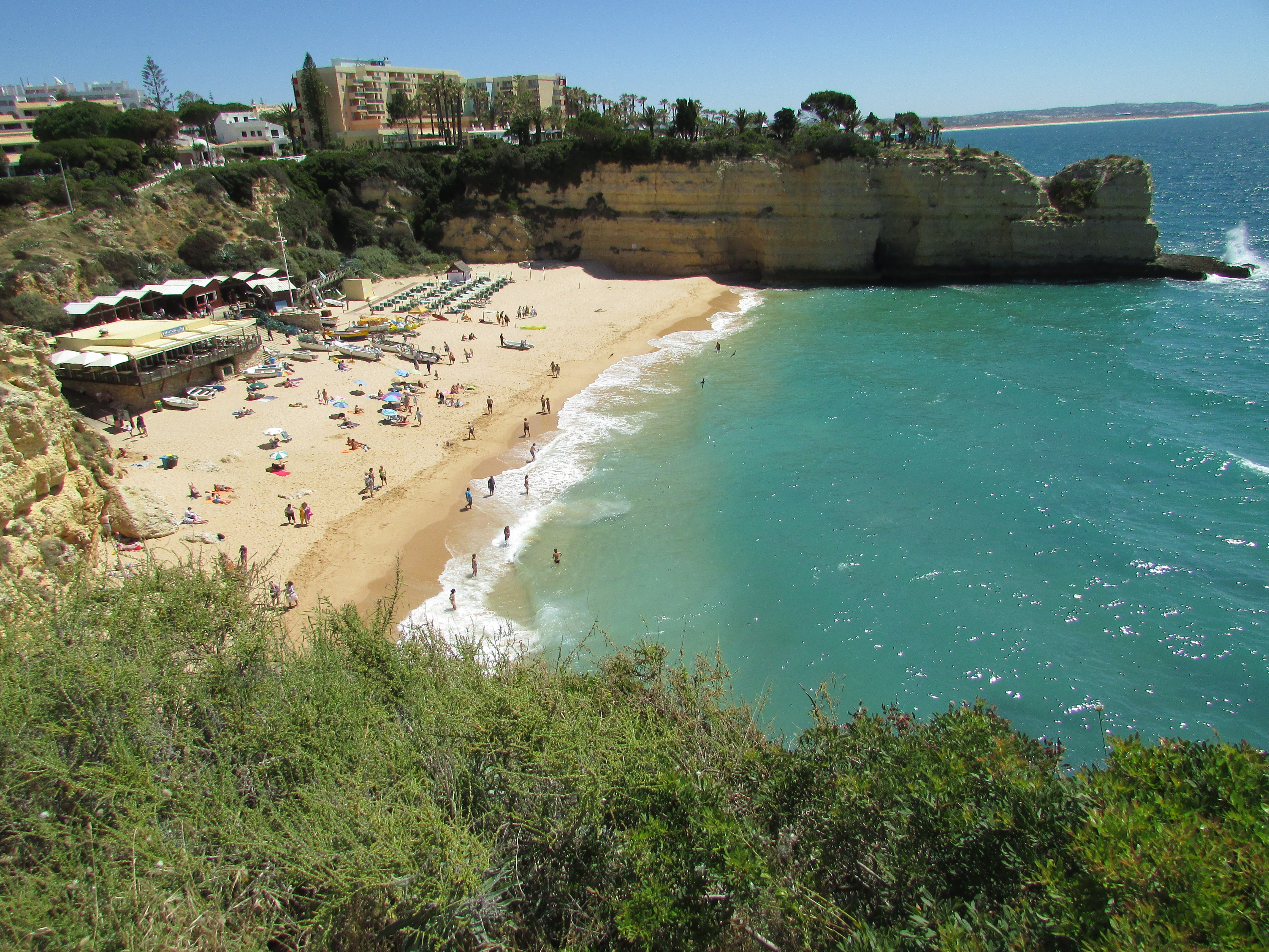 Looking east across Praia Nossa Senhora da Rocha from the cliff tops near Porches, Algarve, Portugal.